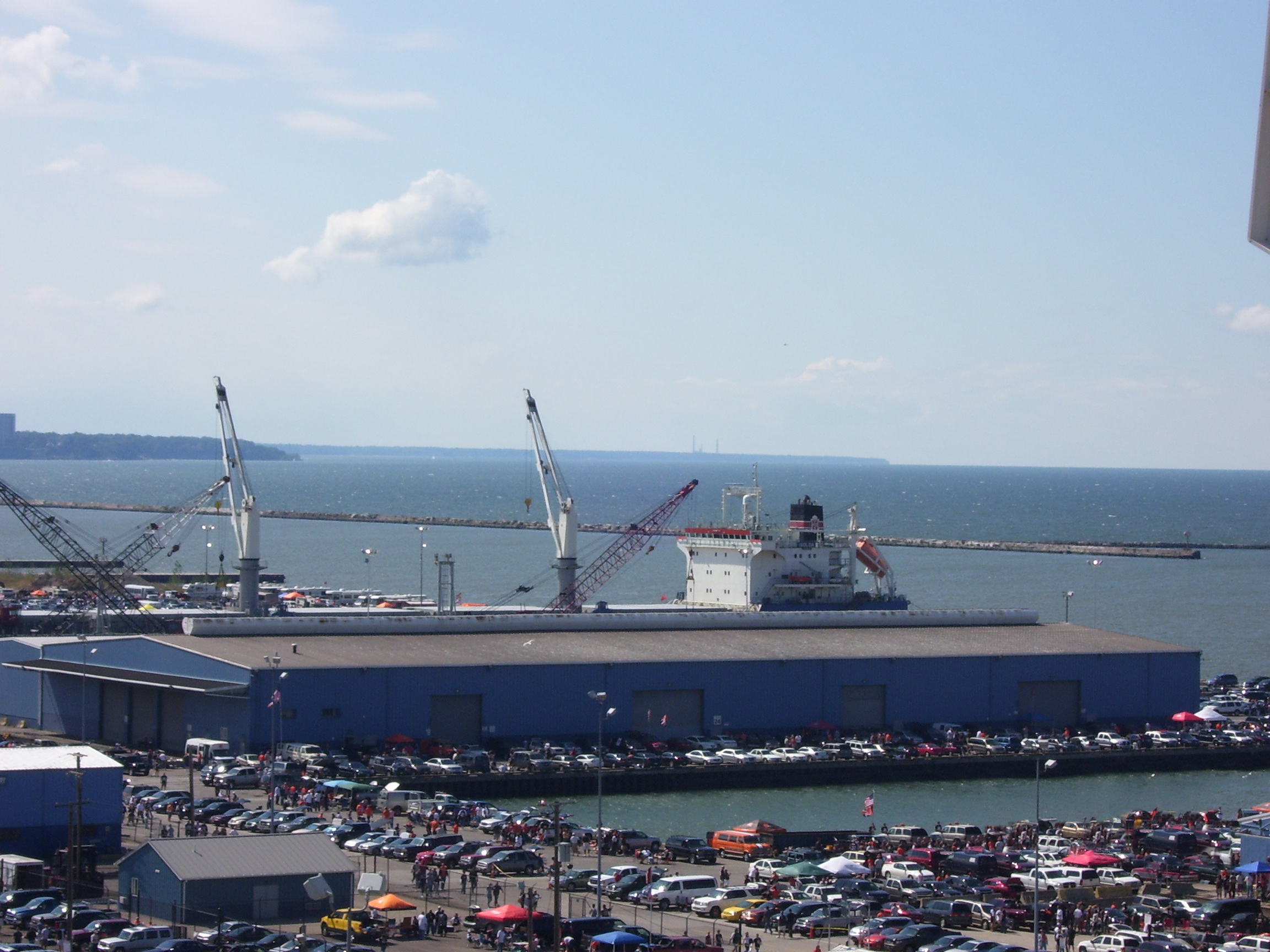 An image of the Port of Cleveland from the final row of Cleveland Browns Stadium.